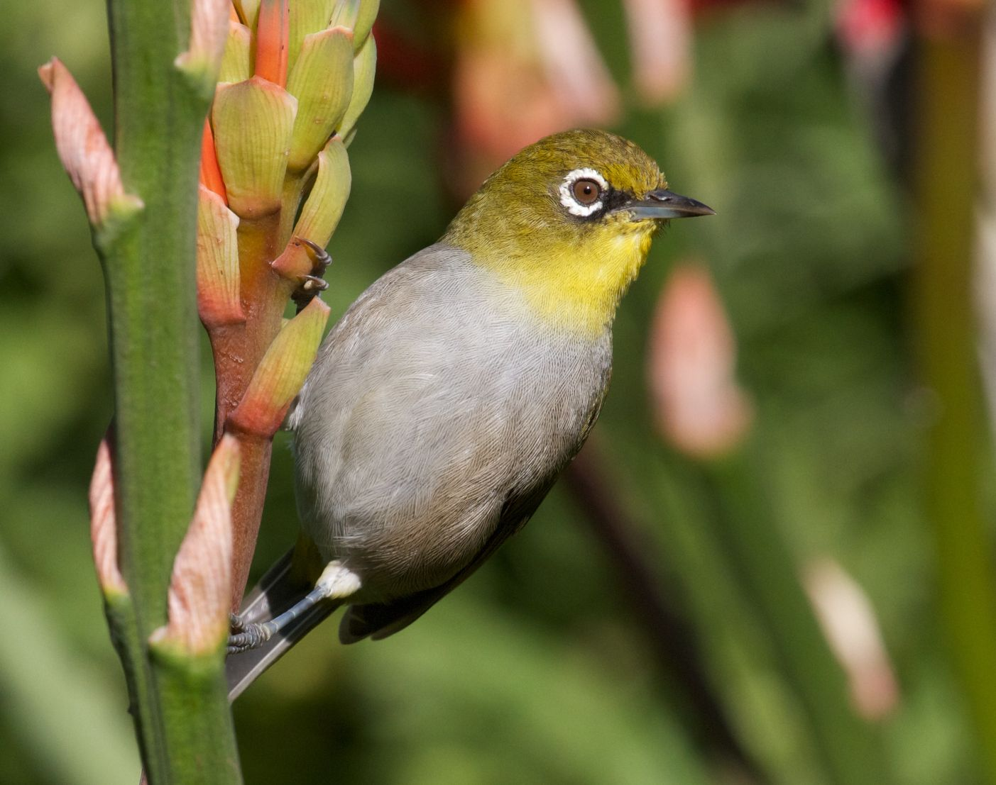 A Cape White-eye in Cape Town, South Africa. Z. pallidus has been split; this is now Z. virens